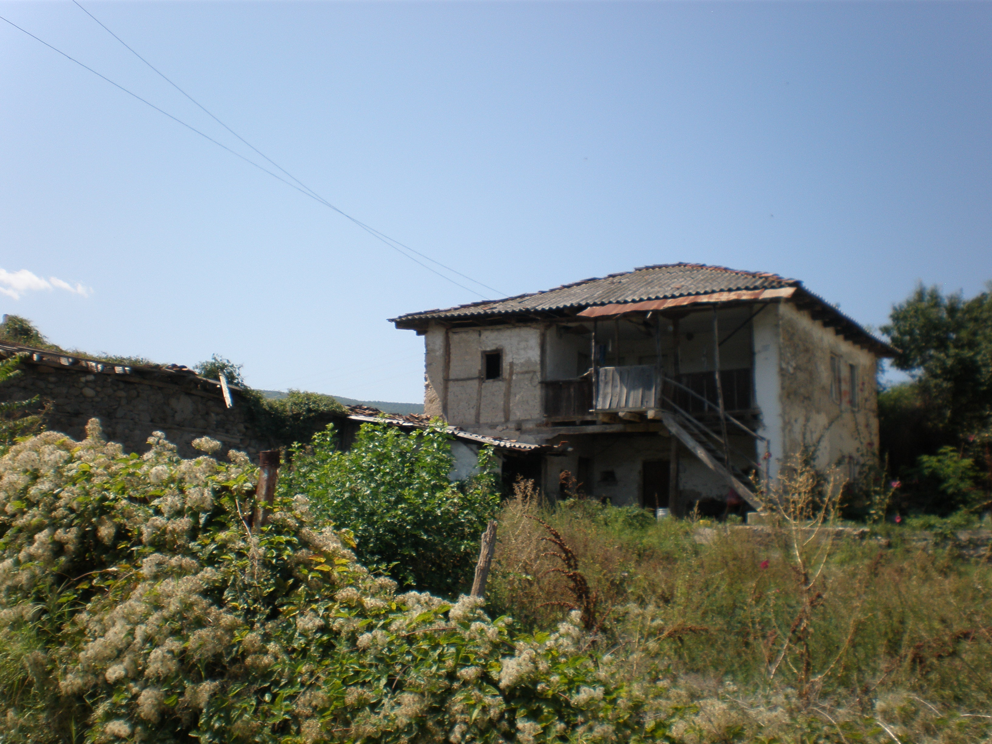 An old macedonian traditional house "chardaklija" in the village of Markova Sushica, near Skoppje, Macedonia